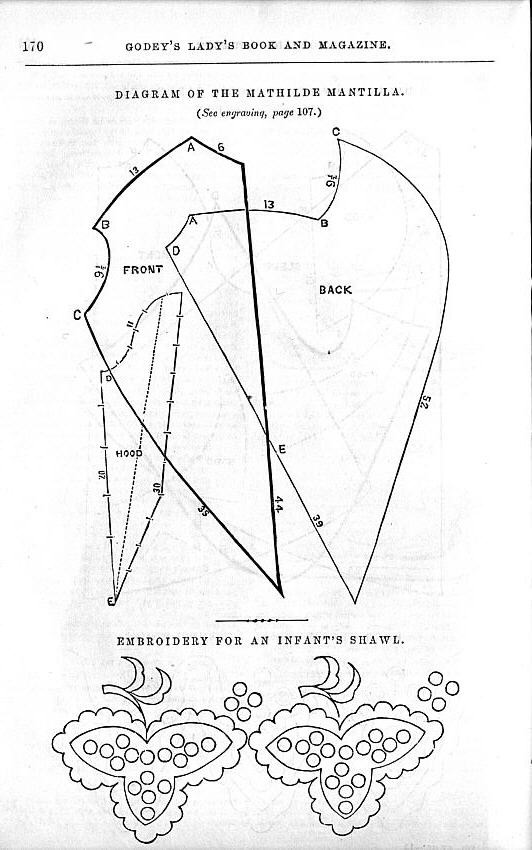 Mantilla from Godey's Lady's Book